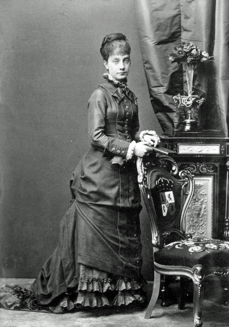 Infanta Pilar of Spain, daughter of Queen SIabella II of Spain